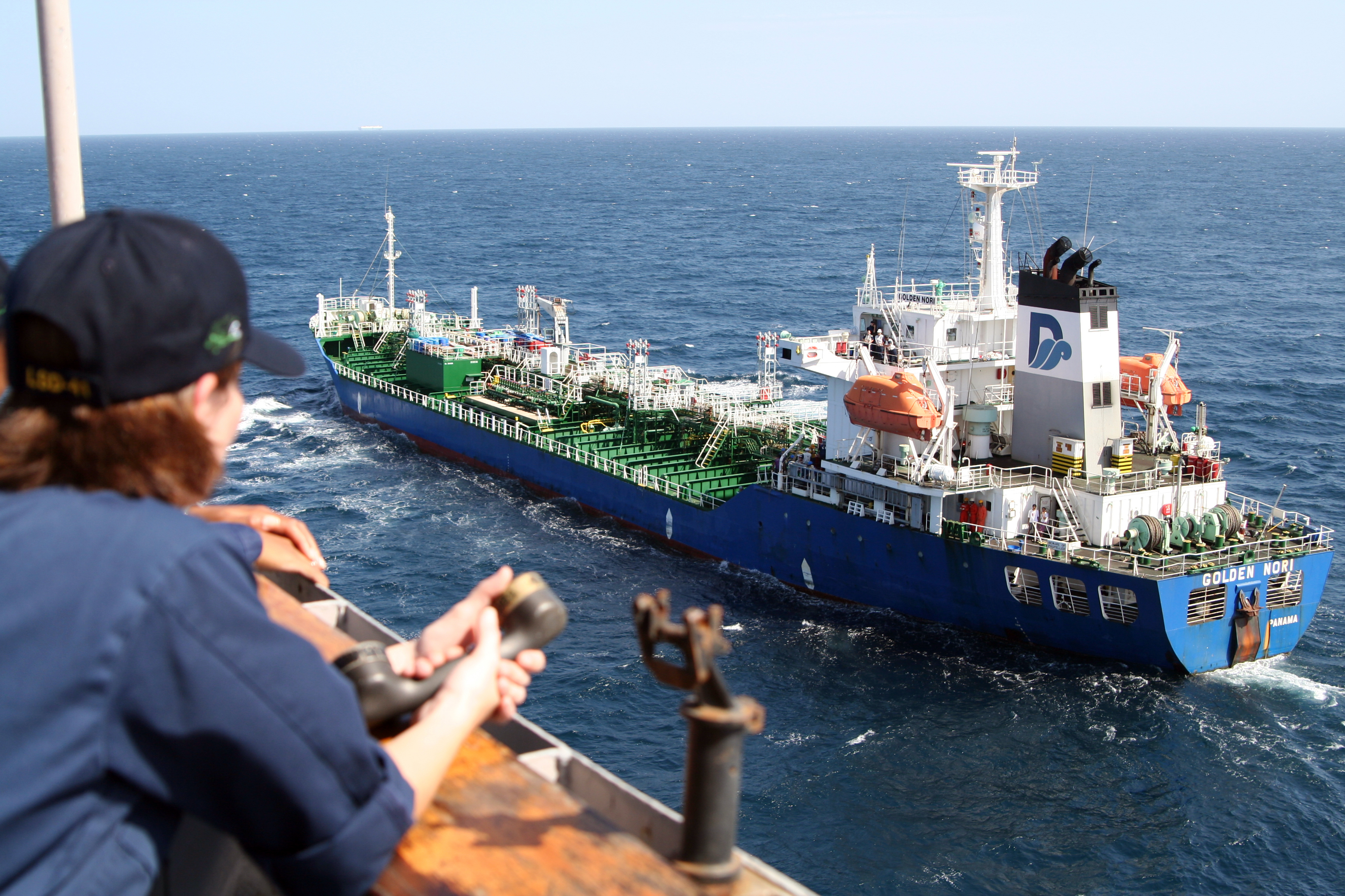 GULF OF ADEN (Dec. 13, 2007) The Merchant vessel Golden Nori comes along side the U.S. Navy dock landing ship USS Whidbey Island (LSD 41) for refueling following its release from Somalia-based pirates Dec. 12, 2007. Pirates seized the Panamanian-flagged vessel Oct. 28, 2007 and held the 23-man crew hostage in Somali territorial waters. The release marks the first time in more than a year that no ships are held by Somali pirates. Whidbey Island is deployed to the U.S. Navy 5th Fleet area of operations in support of Maritime Security Operations. U.S. Navy photo by Cmdr. Michael Junge (Released) ENS McCoy was selected, by CDR Junge to be the Officer of the Deck for this dangerous evolution which usually entails two professional trained Naval Vessels. She completed this evolution in its entirety, lasting more than six hours. She was also one of junior officers on the ship, but as a formerly enlisted person she had a solid naval back ground and was well respected by both her peer and subordinates.